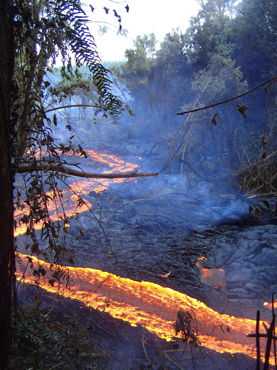 Lava flow, running to the sea. La Réunion, 2004.